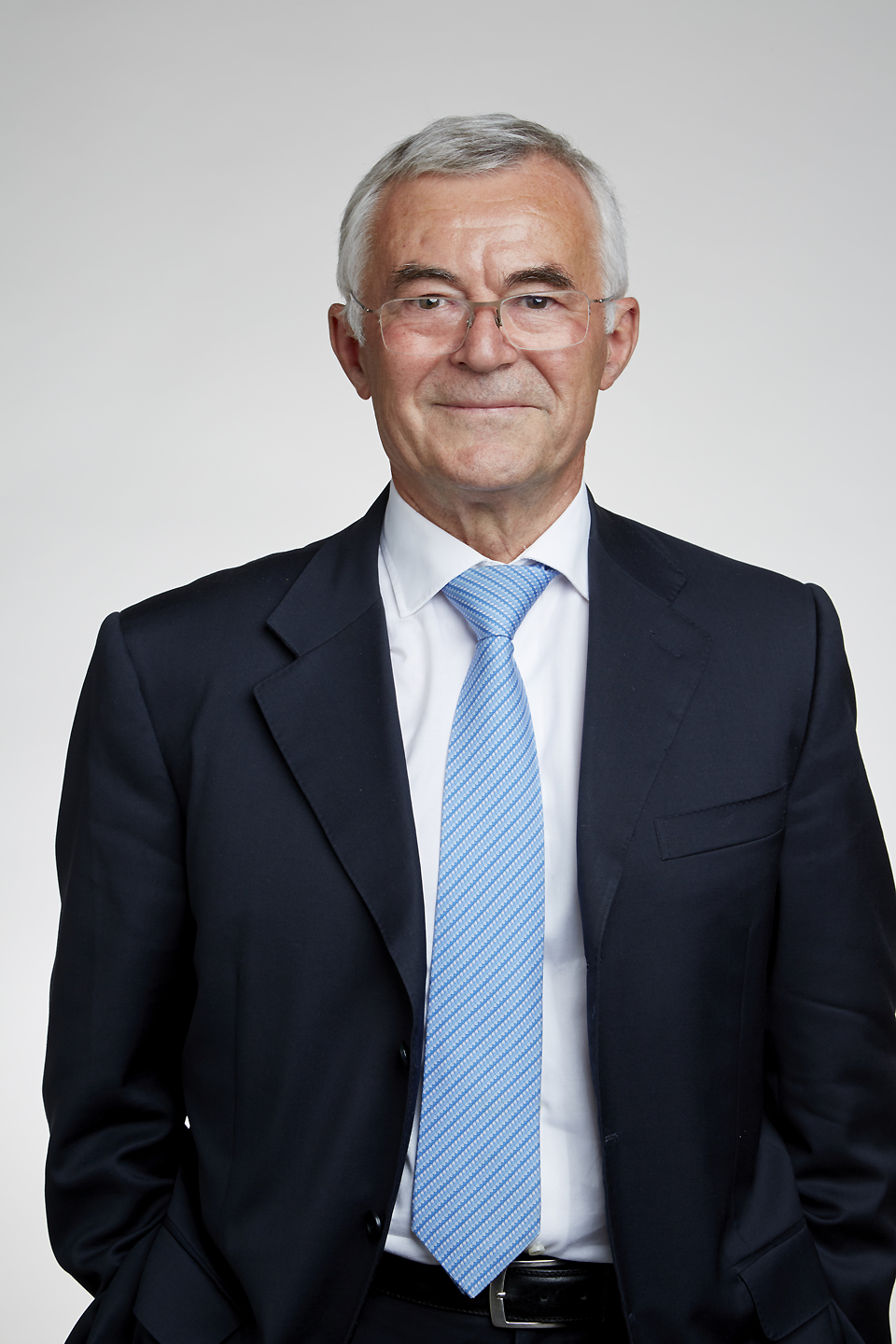 Rino Rappuoli is Chief Scientist & Head of External Research and Development (R&D) at GlaxoSmithKline (GSK) Vaccines Attribution: The Royal Society